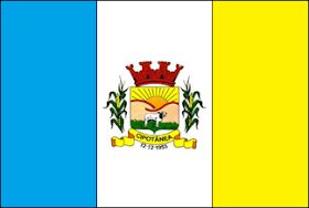 Flags of the city of Cipotânea, Minas Gerais, Brazil.